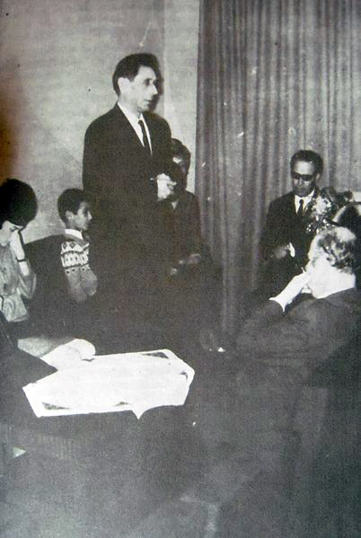 portrait